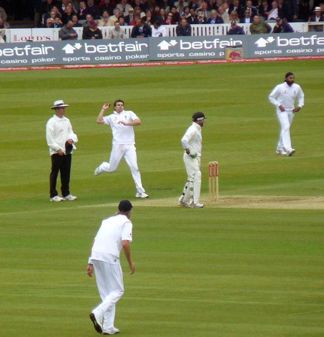 Jimmy Anderson in his delivery stride, bowling against New Zealand at Lord's during their tour of England in 2008. The umpire is Simon Taufel.